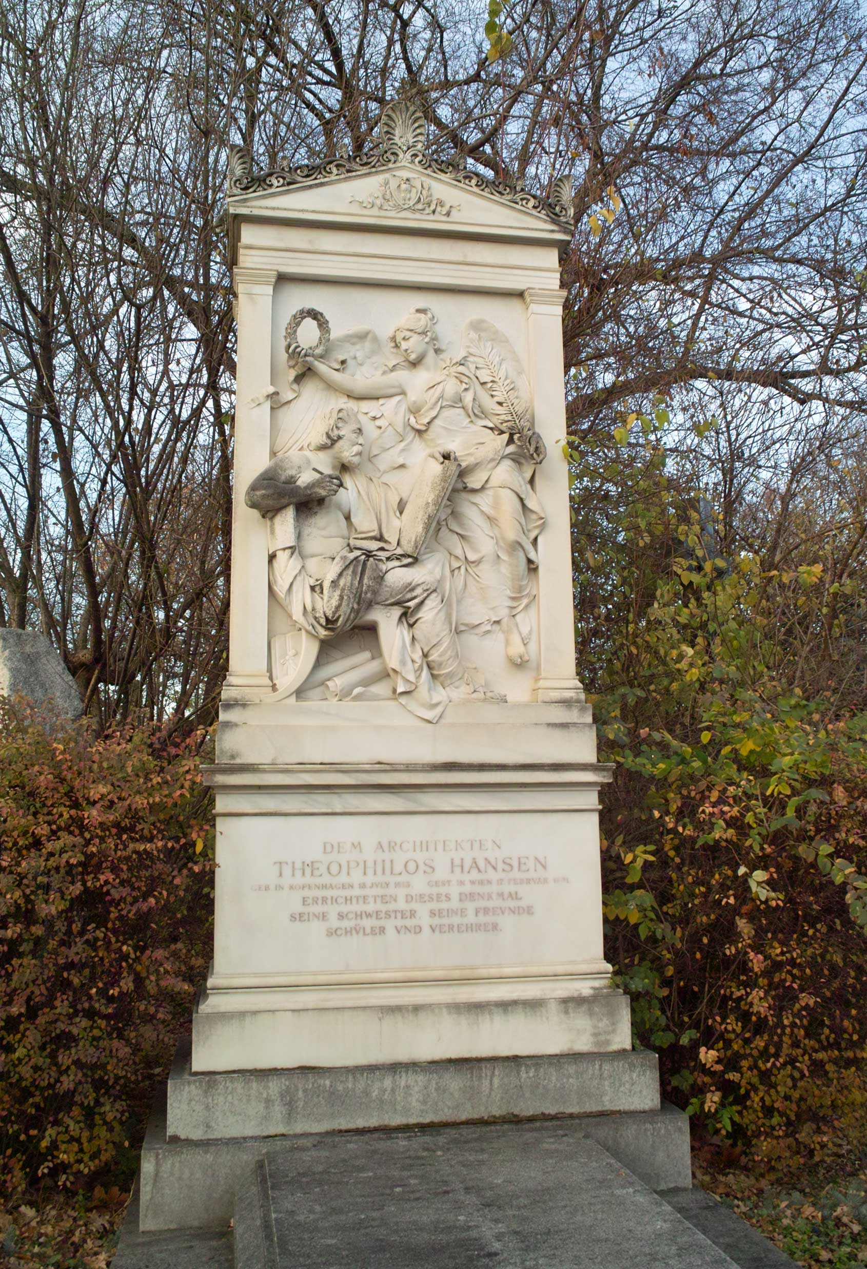 Grave of Theophilos Hansen at Zentralfriedhof, Vienna